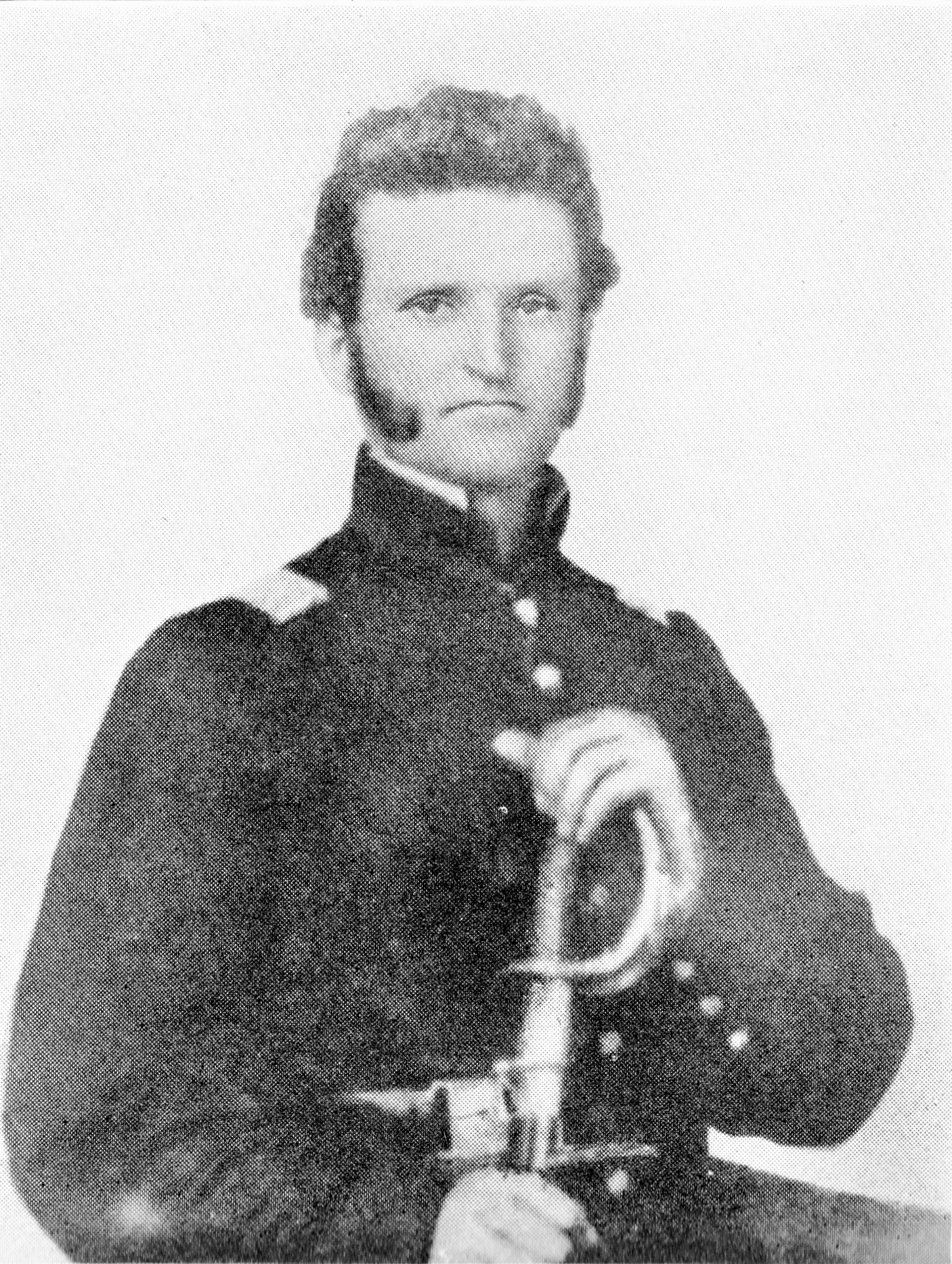 Portrait of James Baird Weaver, 1st Lt., 2nd Iowa, State Historical Society of Iowa